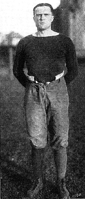 Photograph Miller Pontius